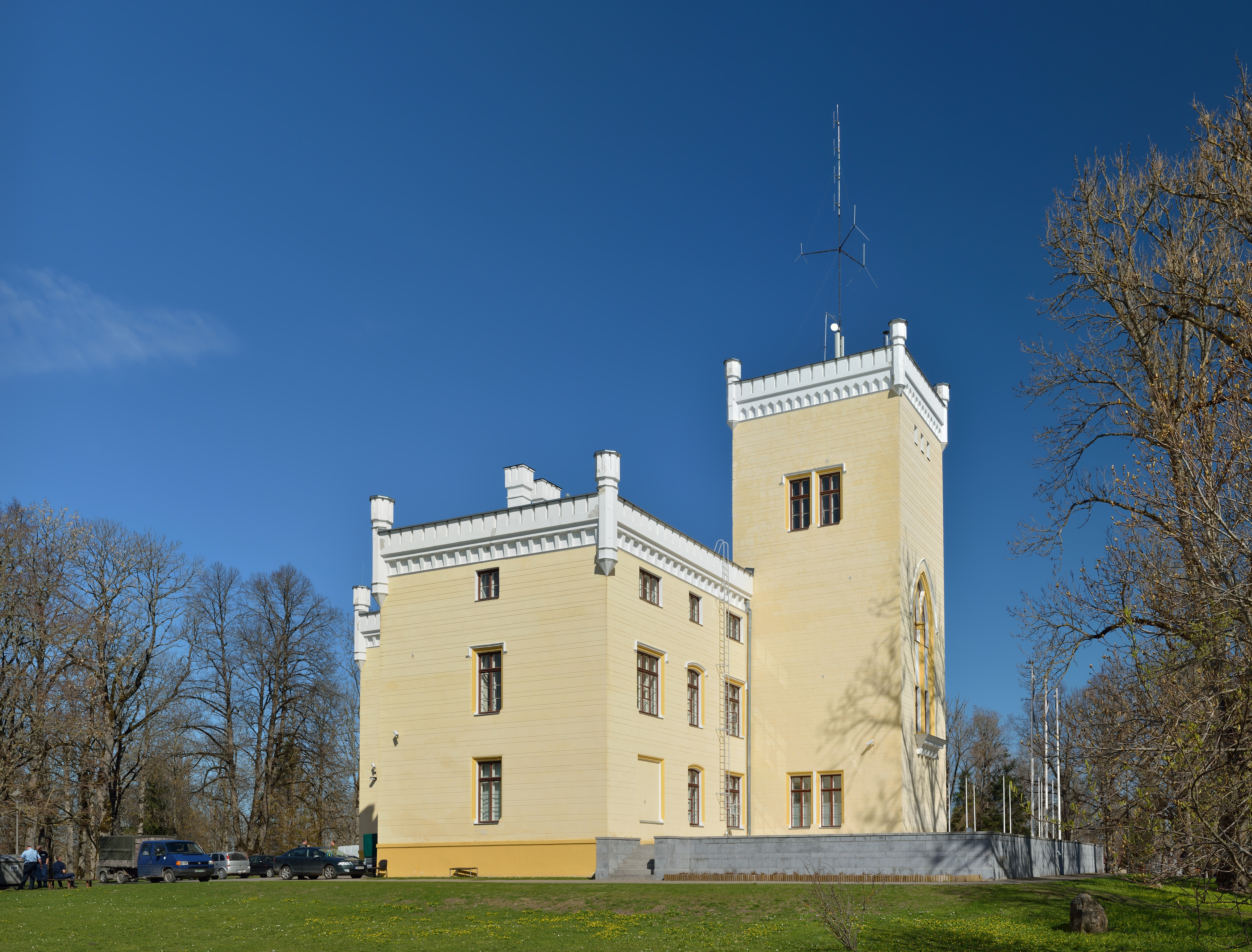 Alu manor main building